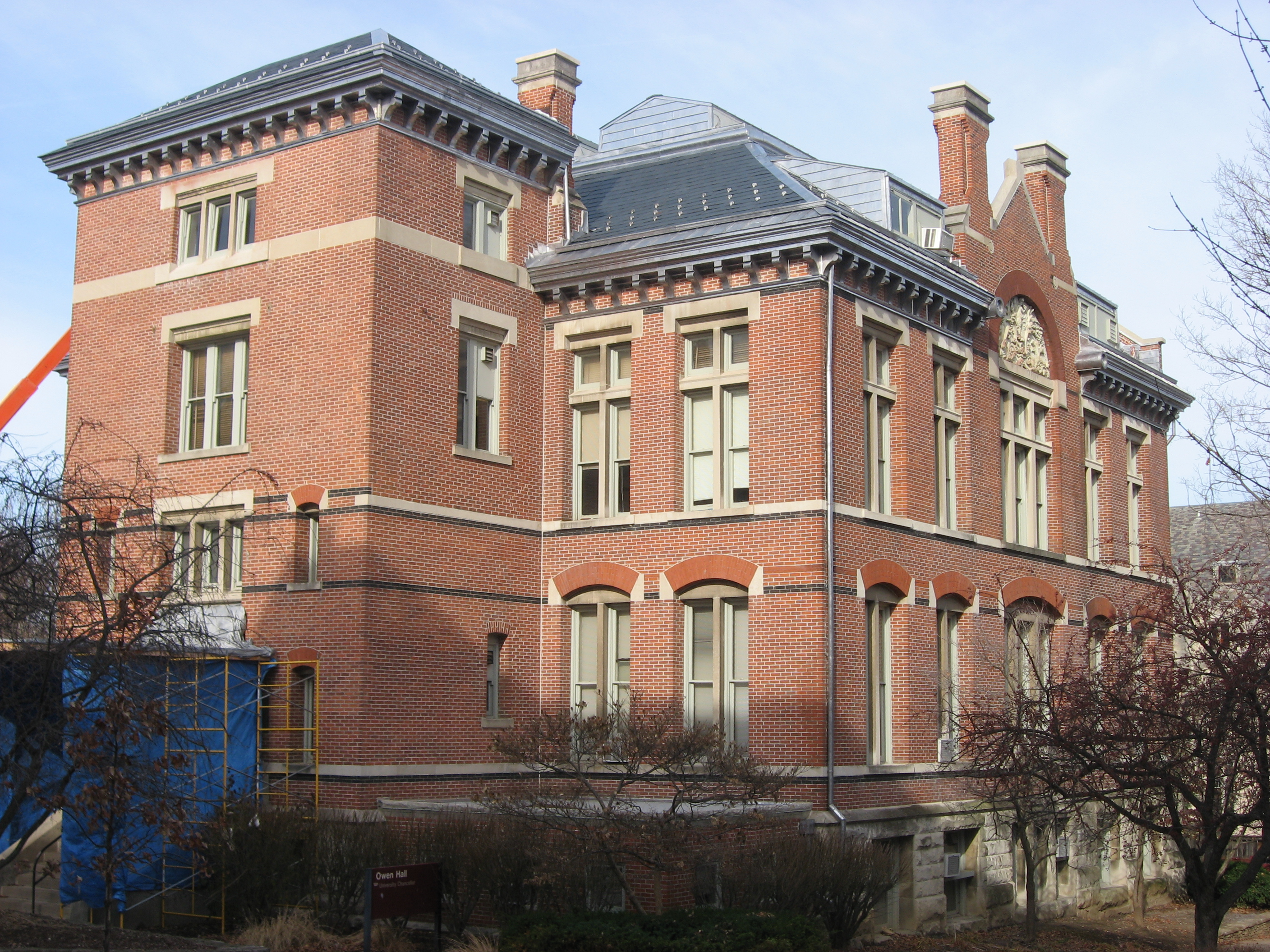 Rear of Owen Hall on the campus of Indiana University in Bloomington, Indiana, United States. Built in 1884, it is part of The Old Crescent, a group of the oldest buildings on the university's campus that is listed on the National Register of Historic Places.